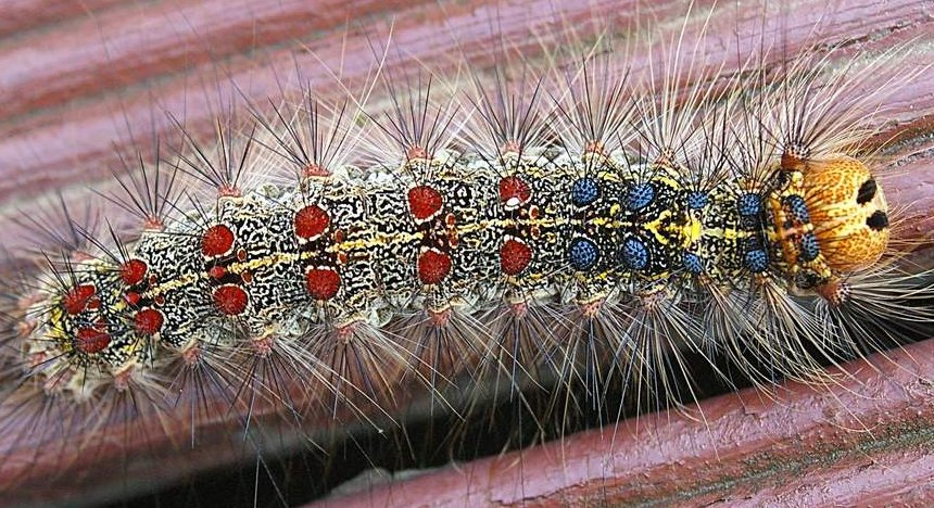 Gypsy moth caterpillar